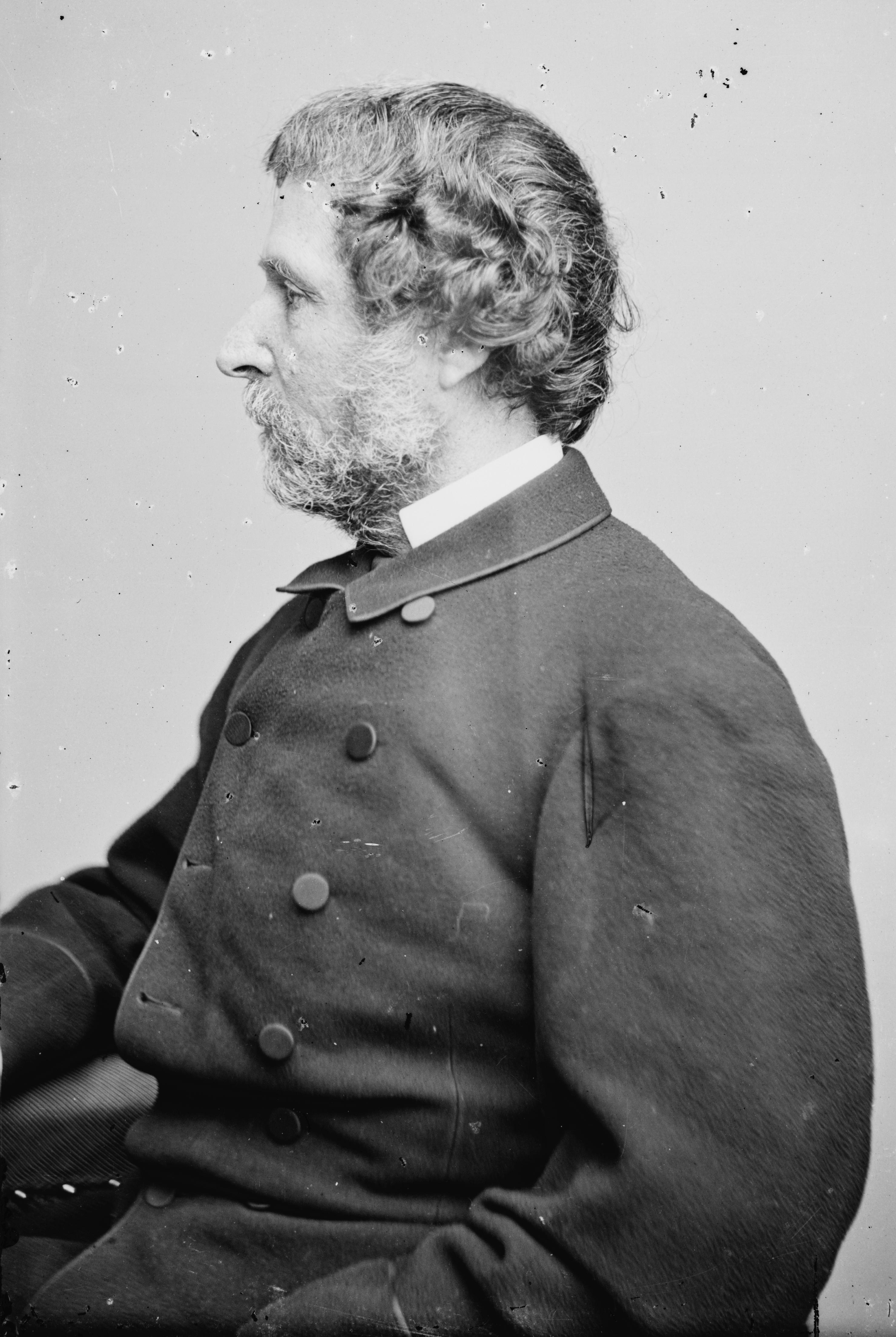 John C. Frémont. Library of Congress description: "John C. Fremont".